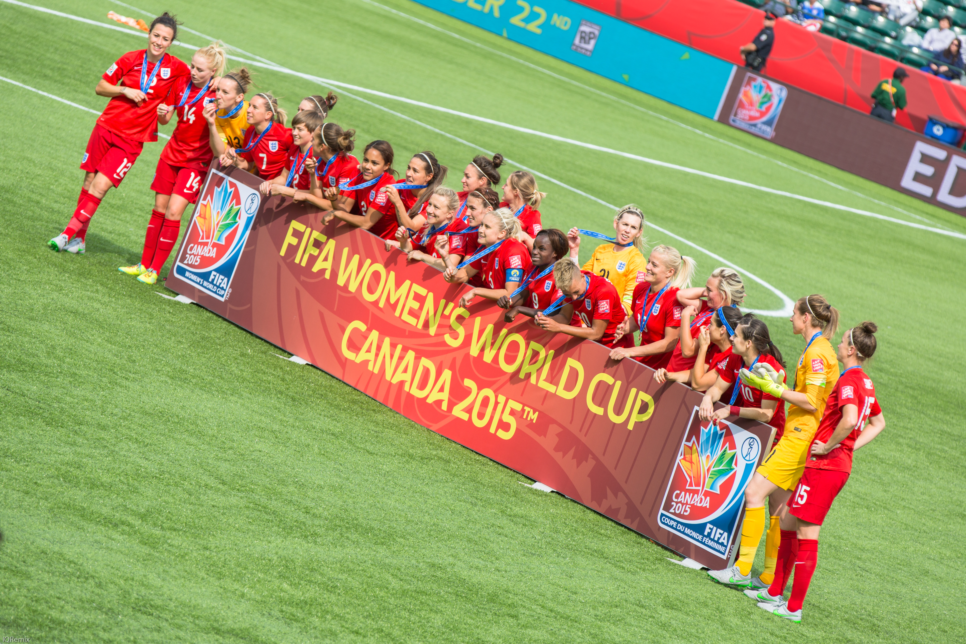 FIFA Women's World Cup Canada 2015 - Edmonton